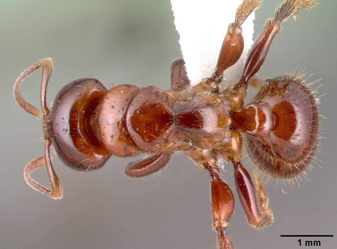 Dorsal view of ant Centromyrmex alfaroi specimen casent0010795.